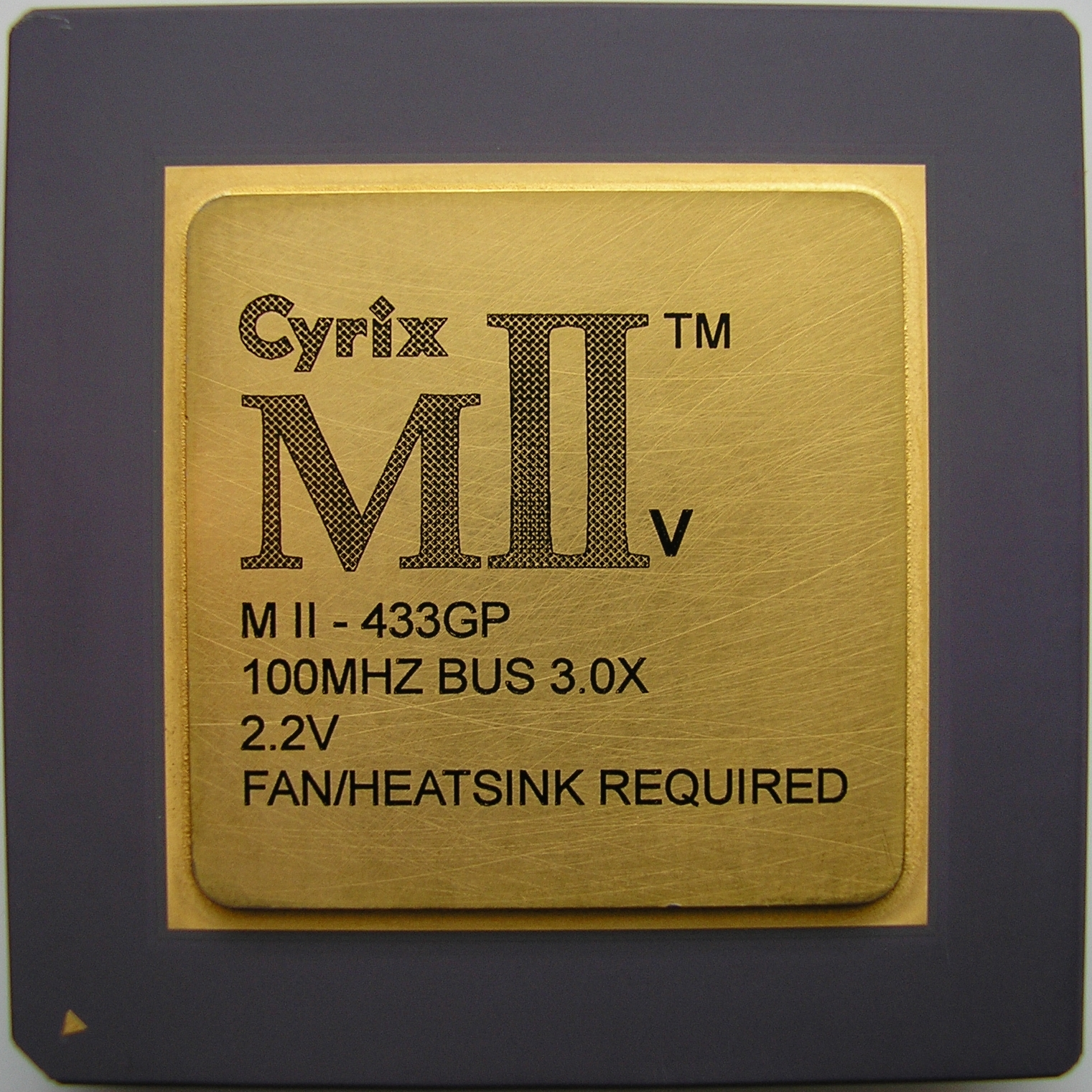 Cyrix M II - 433GP alias: MII-433GP MIIv-433GP 300MHz (100MHz bus x 3) 1998 Family 6, Model 0, Stepping 1